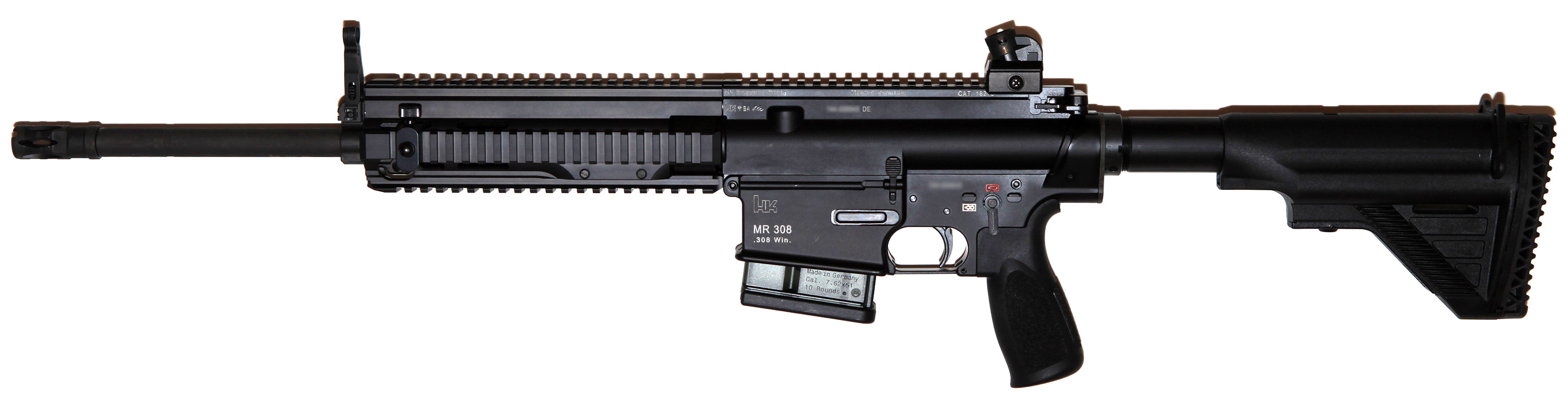 Semiautomatic Rifle Heckler & Koch MR308 (left side)